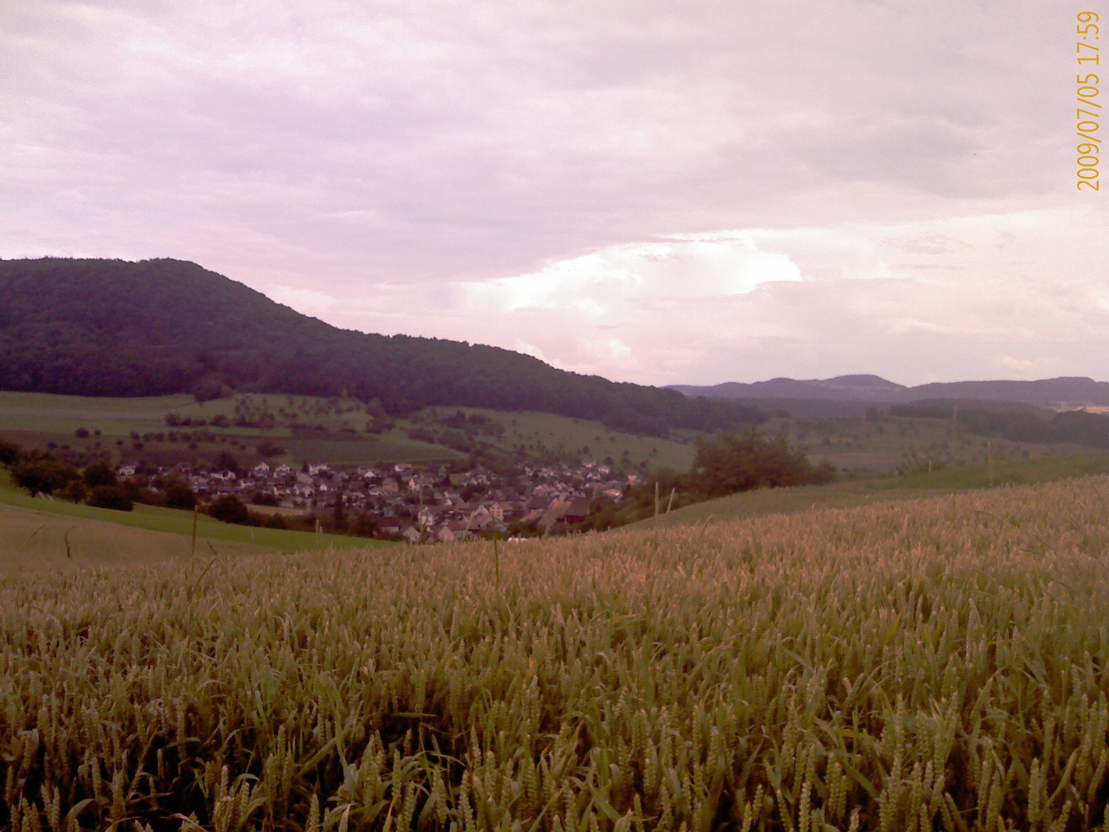 Rickenbach, canton of Basel-Country, SwitzerlandEsperanto: Rickenbach, Kantono Bazelo Kampara, Svislando